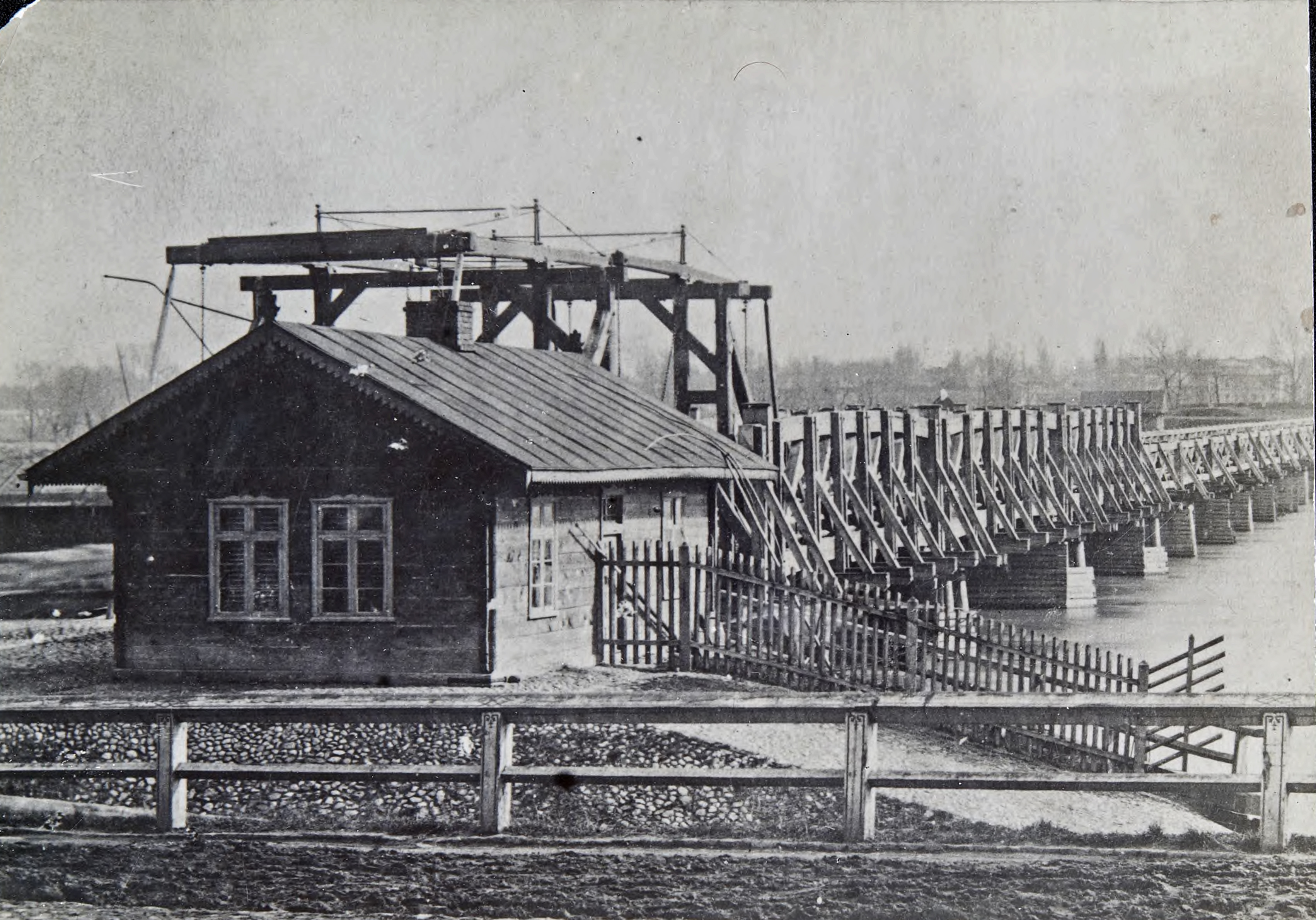 Torun, Poland, bridge over Vistula 1870